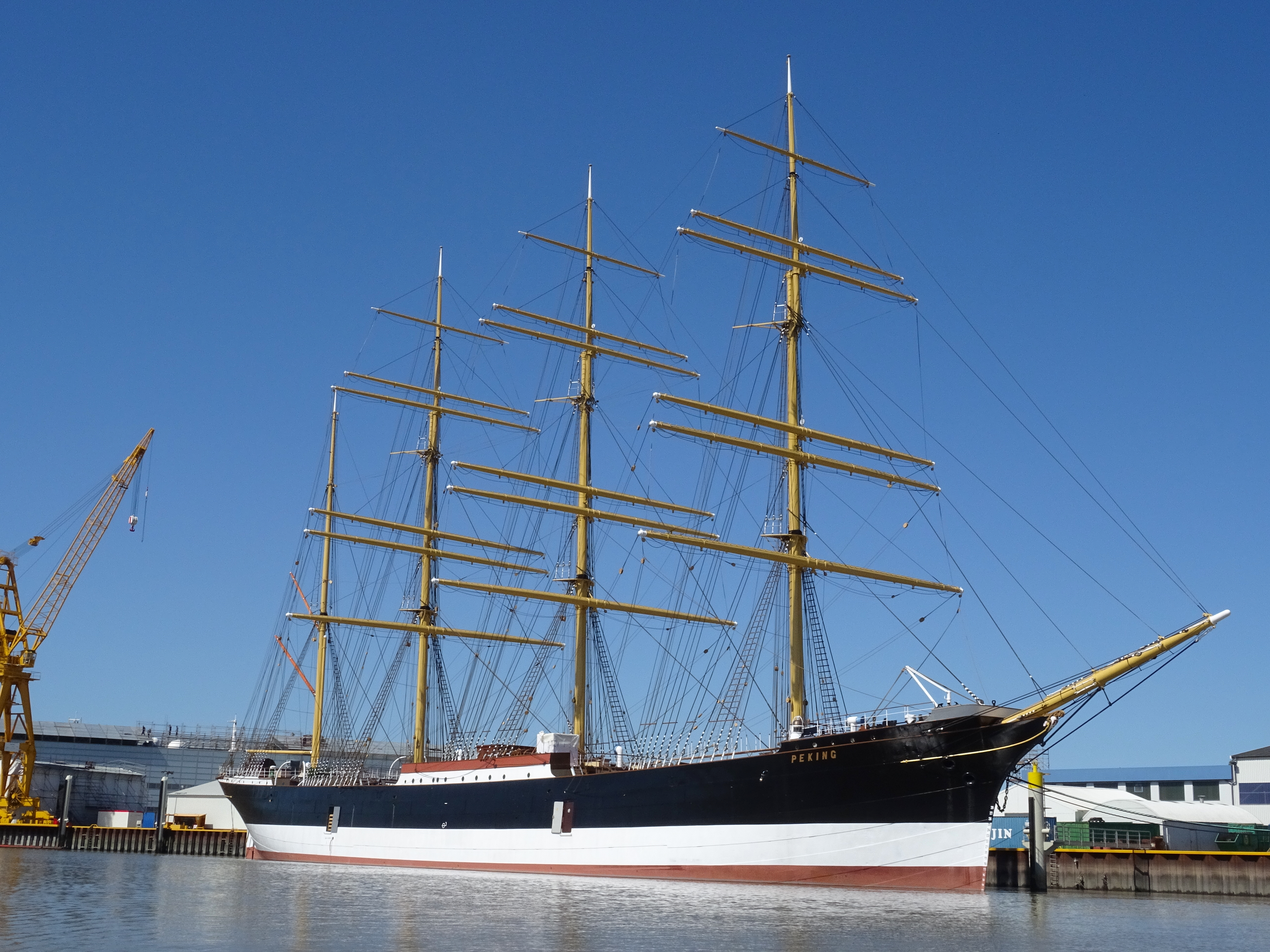 The Flying P-Liner Peking gets restored at Peters shipyard in Wewelsfleth, Germany, after returning from New York.